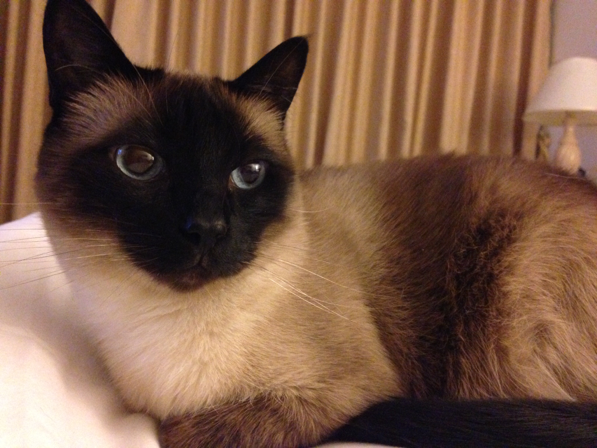 Female Siamese cat